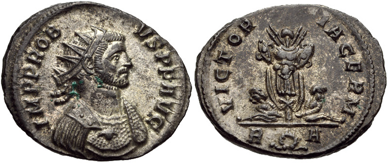 Probus. AD 276-282. Antoninianus (22mm, 3.45 g, 12h). Rome mint, 1st officina. 5th emission, AD 280. IMP PROB VS P F AVG, radiate and cuirassed bust right VICTOR IA GERM, Trophy; bound captive seated to left and right; R(wreath)A. RIC V 220; Pink VI/1 p. 57. EF, some underlying silvering. From the White Mountain Collection.